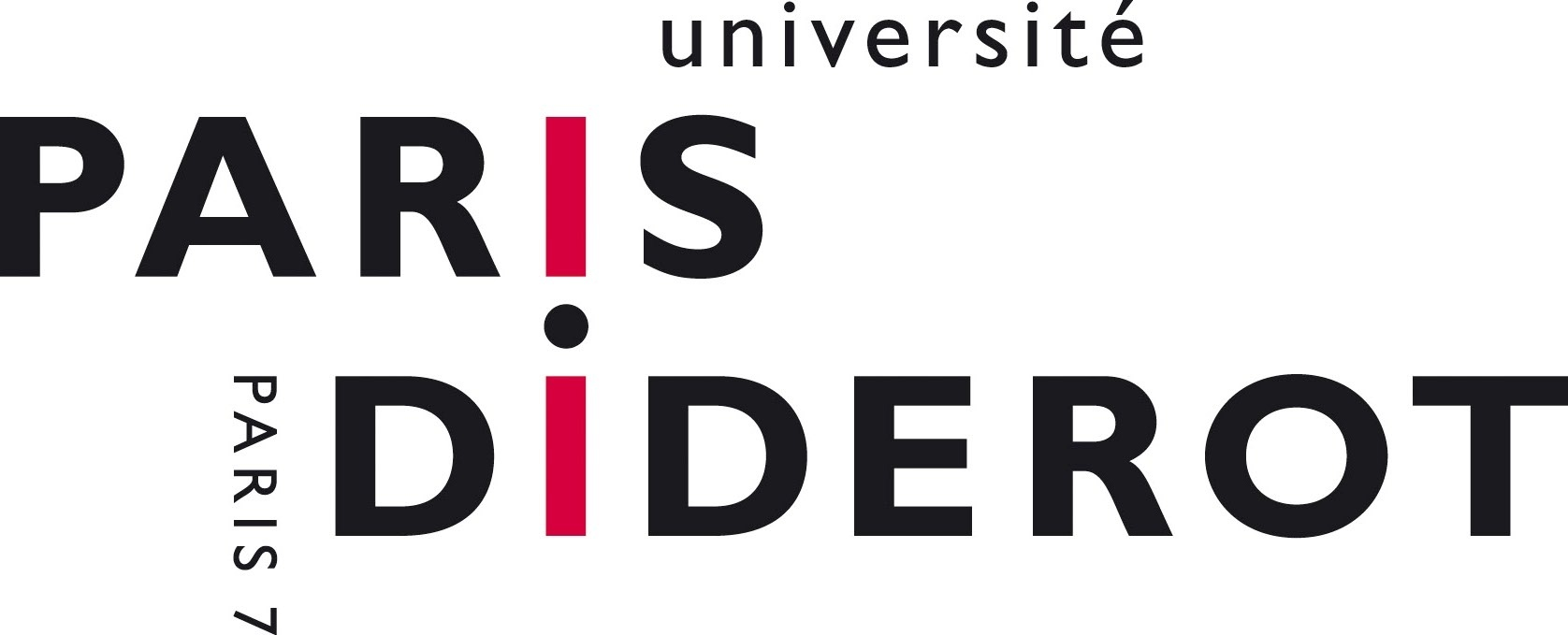 Logo of the Paris Diderot University.